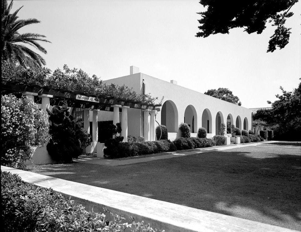 La Jolla Woman's Club — 715 Silverado Street, La Jolla, San Diego County, California. West (front) elevation and north pergola; The building was designed by Irving Gill, with initial construction in 1913. Historic American Buildings Survey—HABS image.